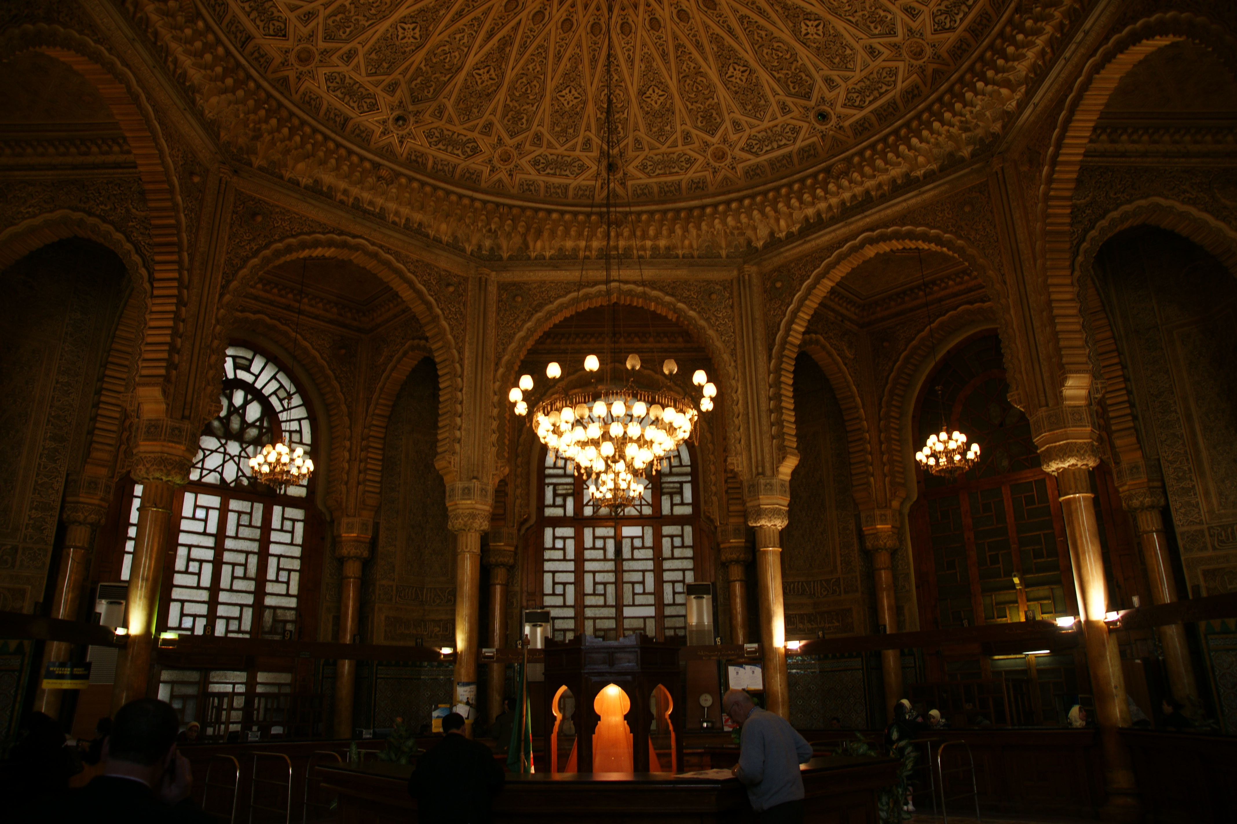 interor of the grande poste algiers